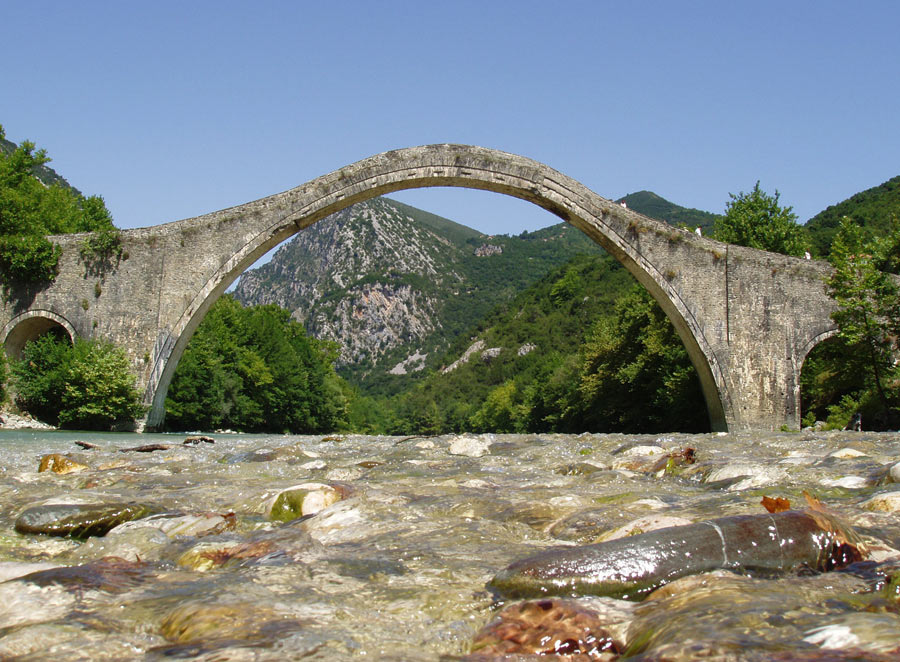 The bridge of Plaka at River Arachthos, Epirus, Greece is a stone-made bridge with a 40-meters-wide arch and approximately 20 meters high.